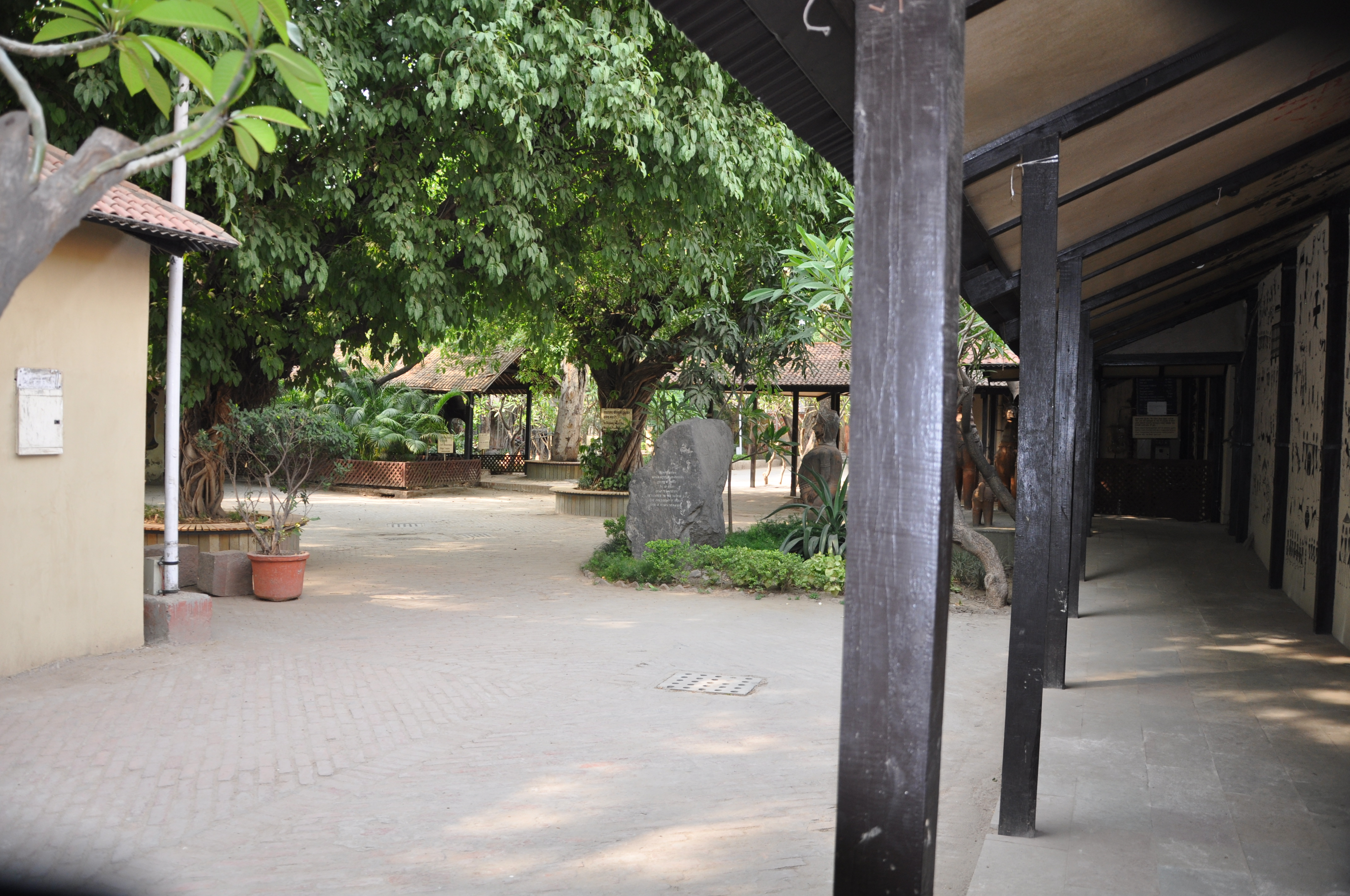 Crafts Museum 2